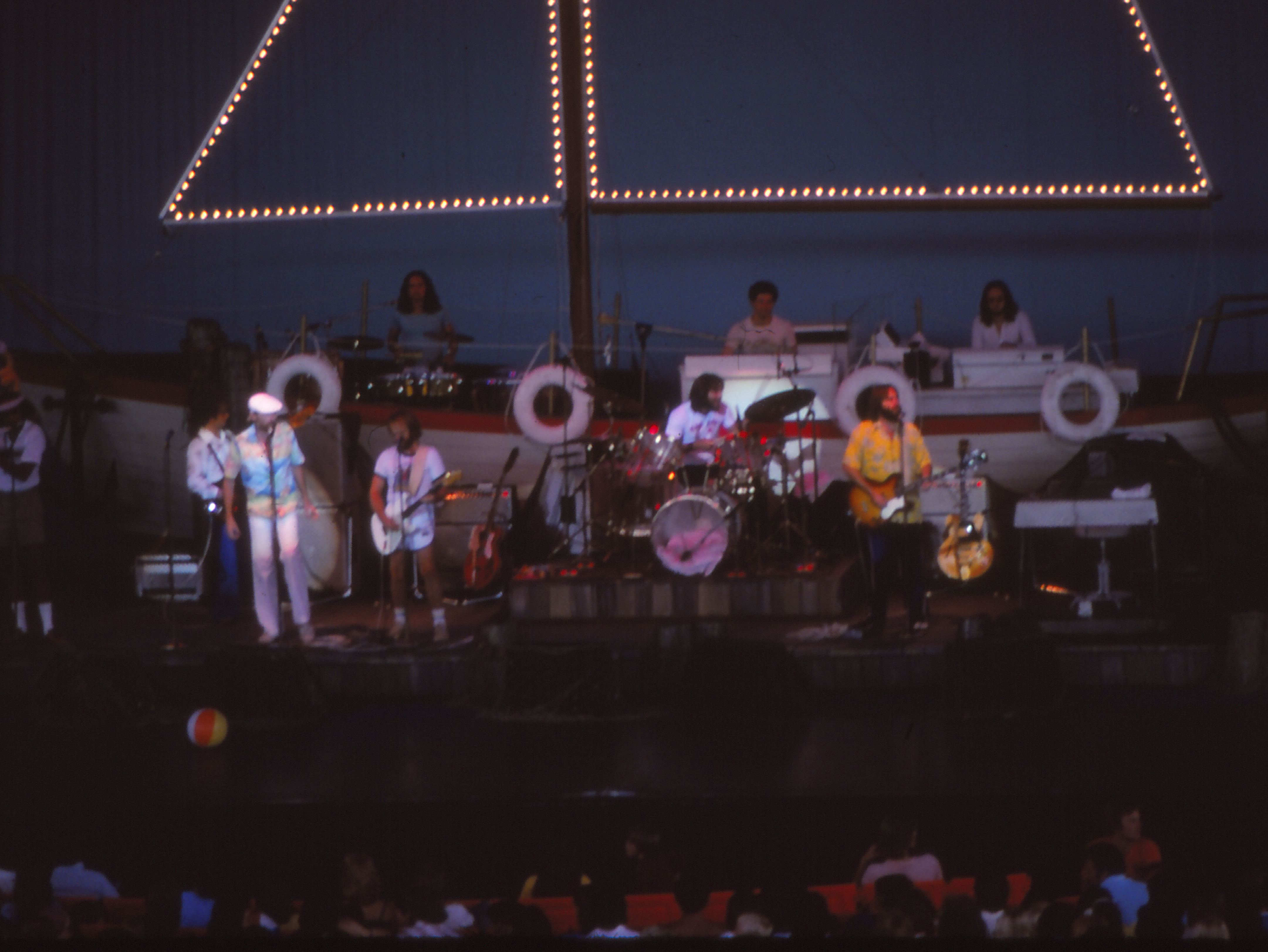 The Beach Boys Koncert Michigan 1978